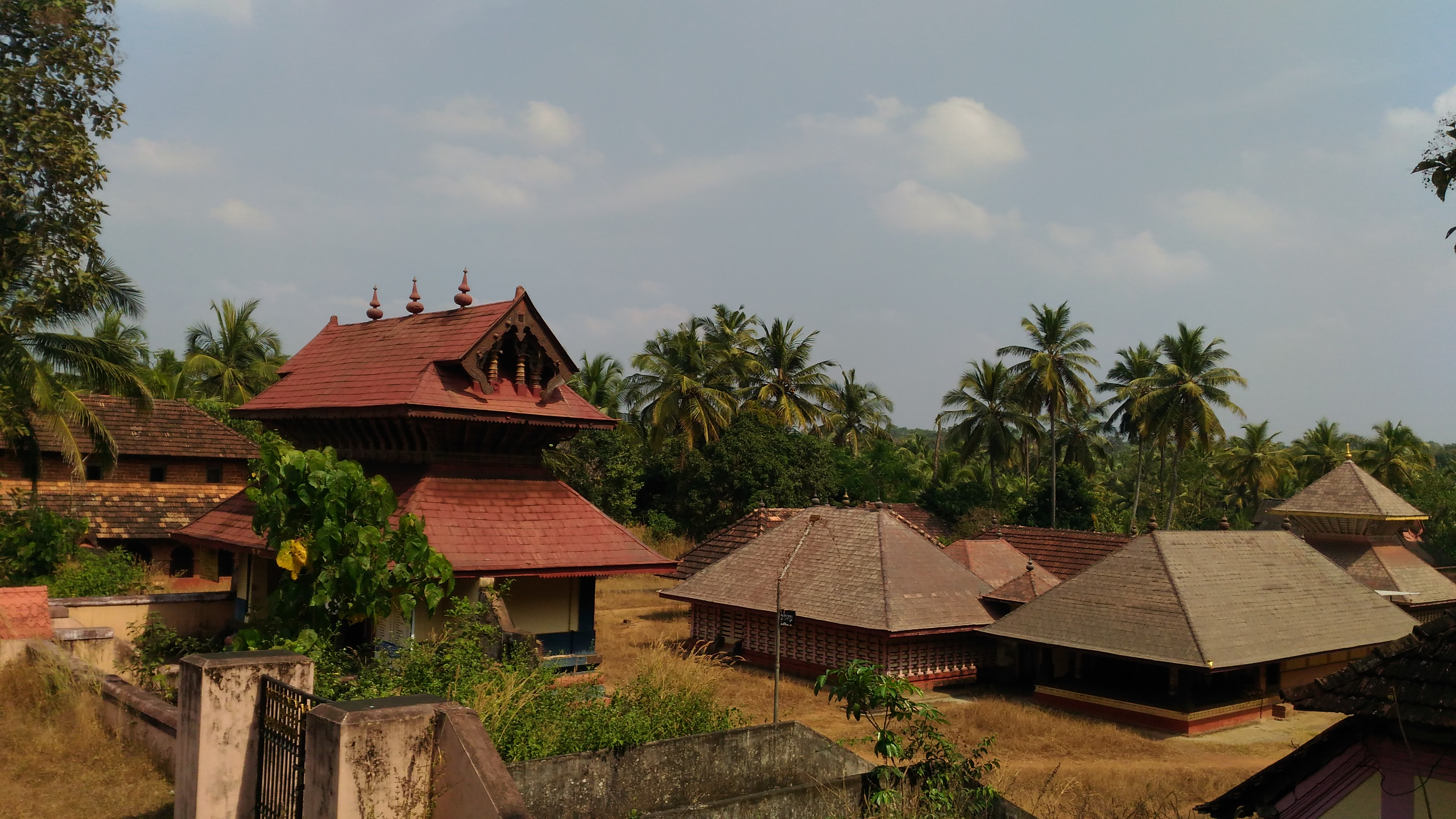 An ancient temple near to Kanhangad in Kasaragod District of Kerala.